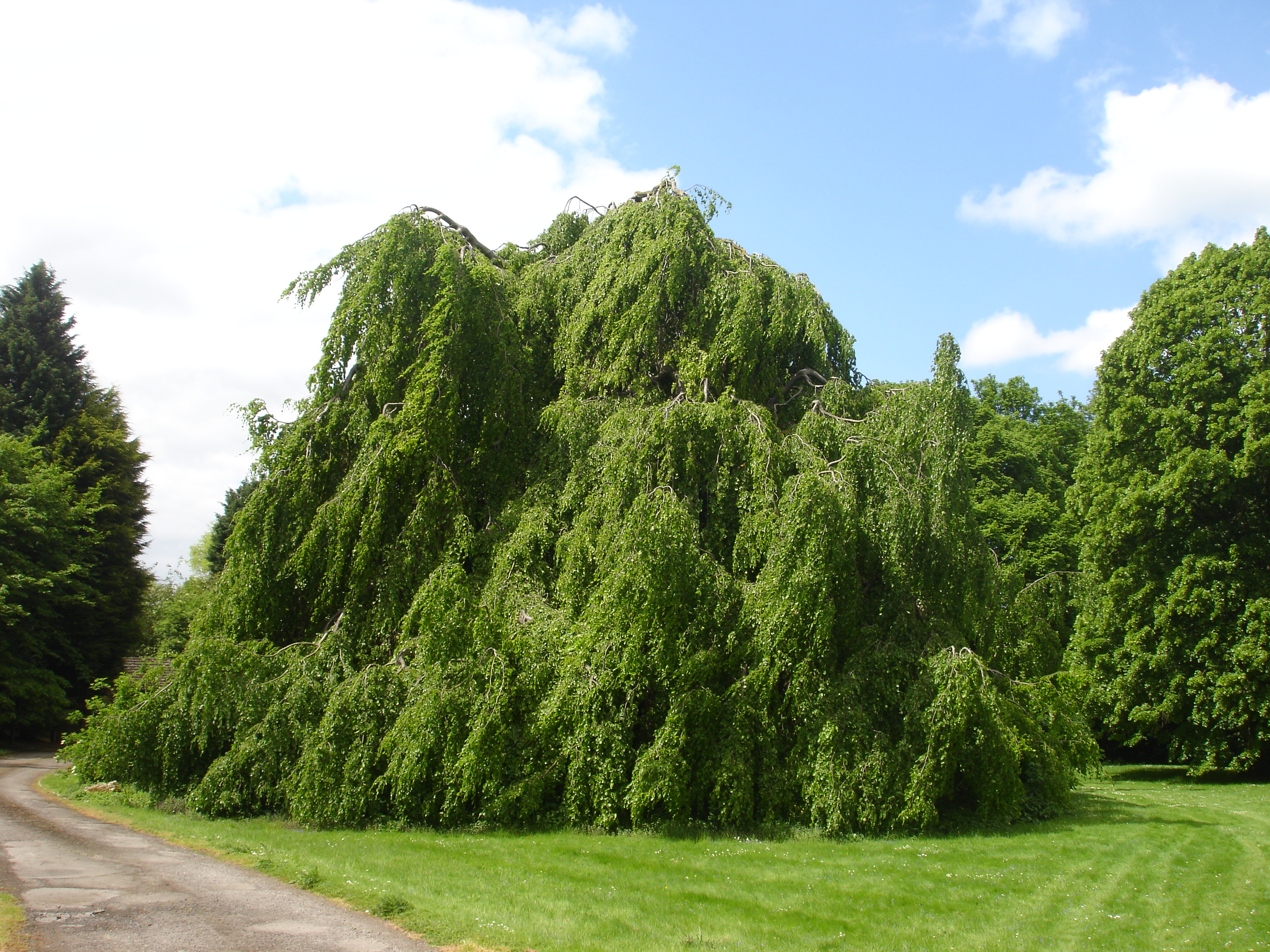 Weeping Beech, Mongewell, Oxfordshire, England